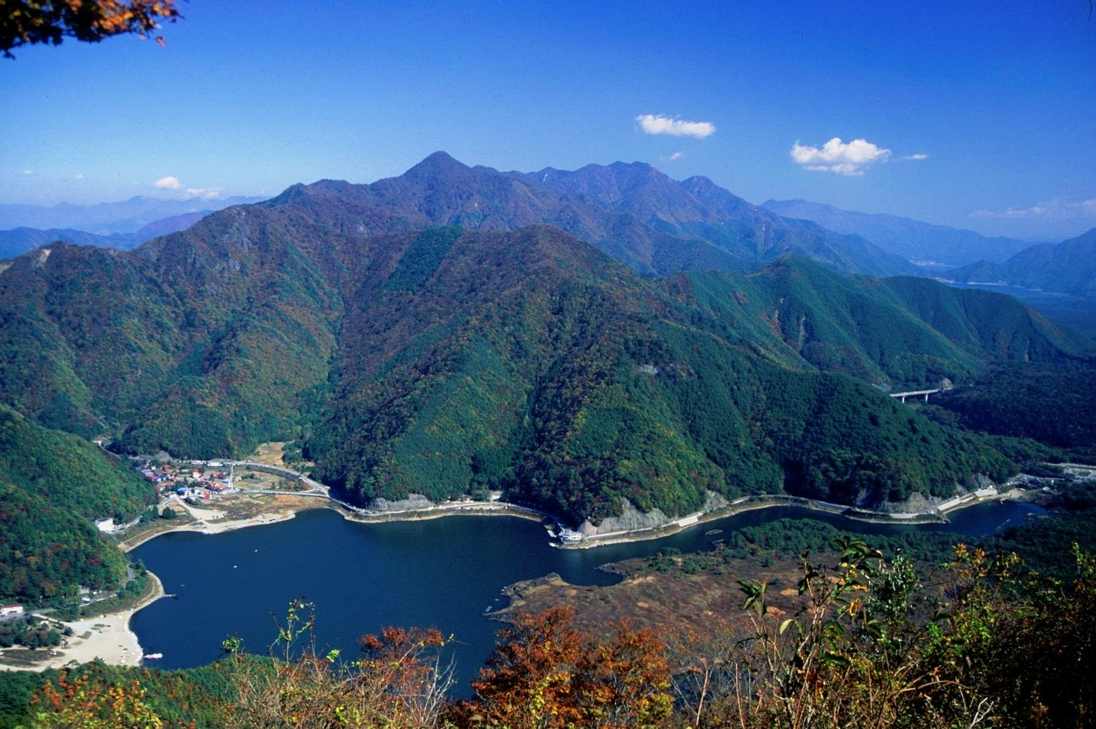 Lake Shōji of Fuji Five Lakes and Misaka Mountains from panoramadai